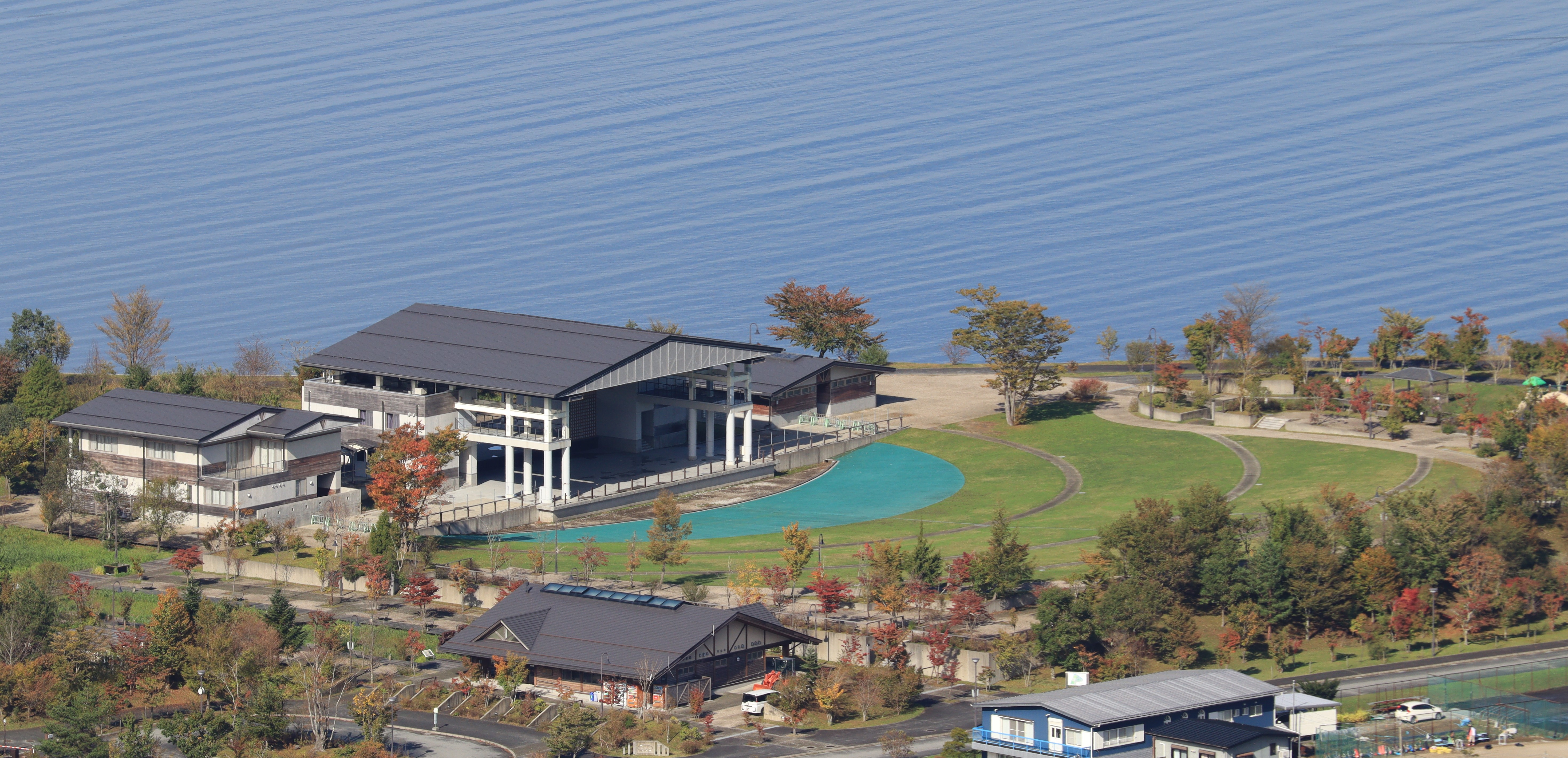 Yamanakako Communication Plaza KIRARA in Yamanakako, Yamanashi Prefecture, Japan.